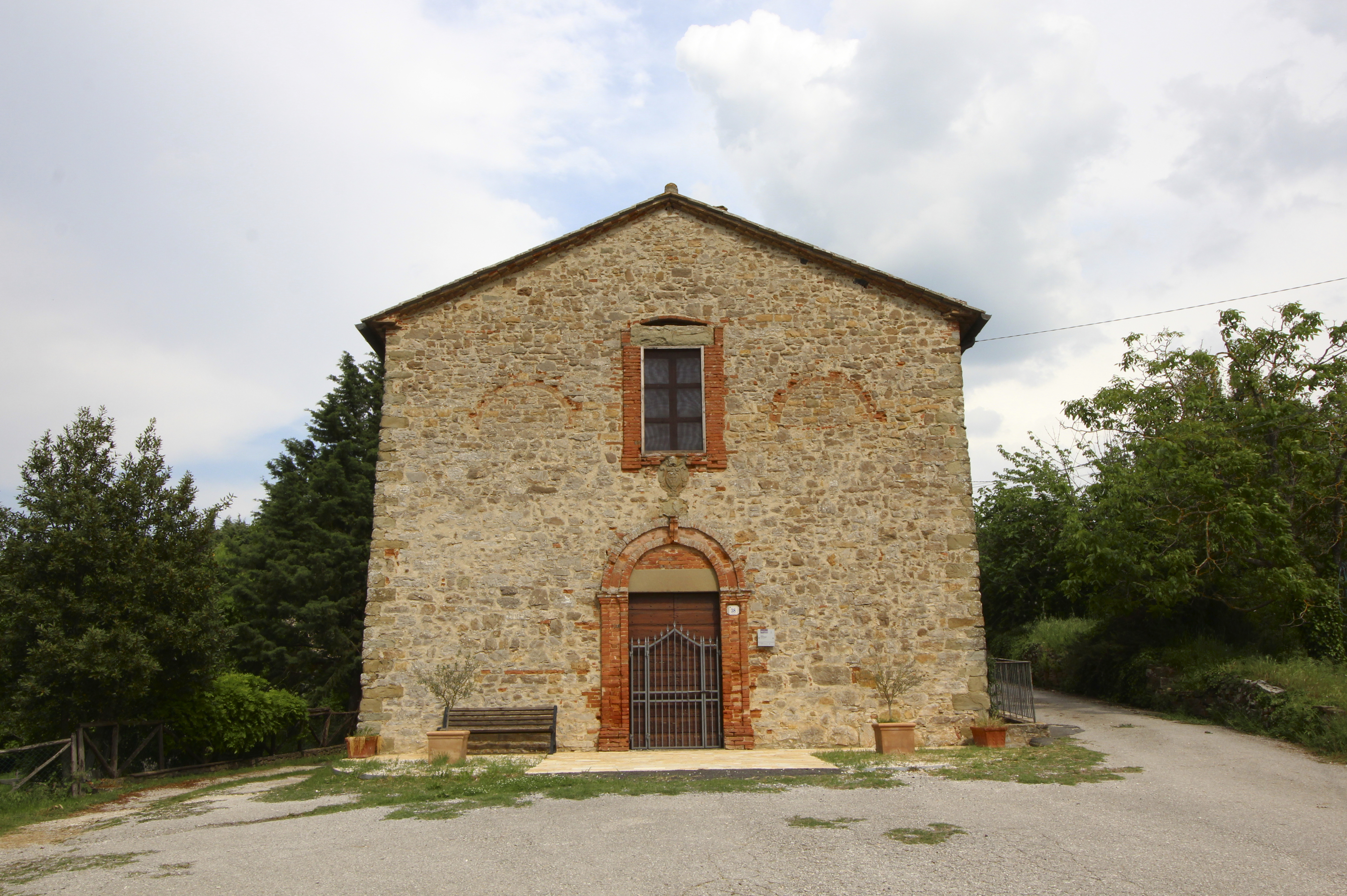 Church San Niccolò in Val di Rose, Lisciano Niccone, Umbria, Italy